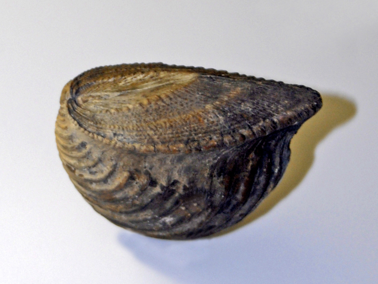 Fossil specimen of Trigonia interlaevigata species from Germany, Jurassic age. On display at Museo di Scienze Naturali Enrico Caffi, Bergamo